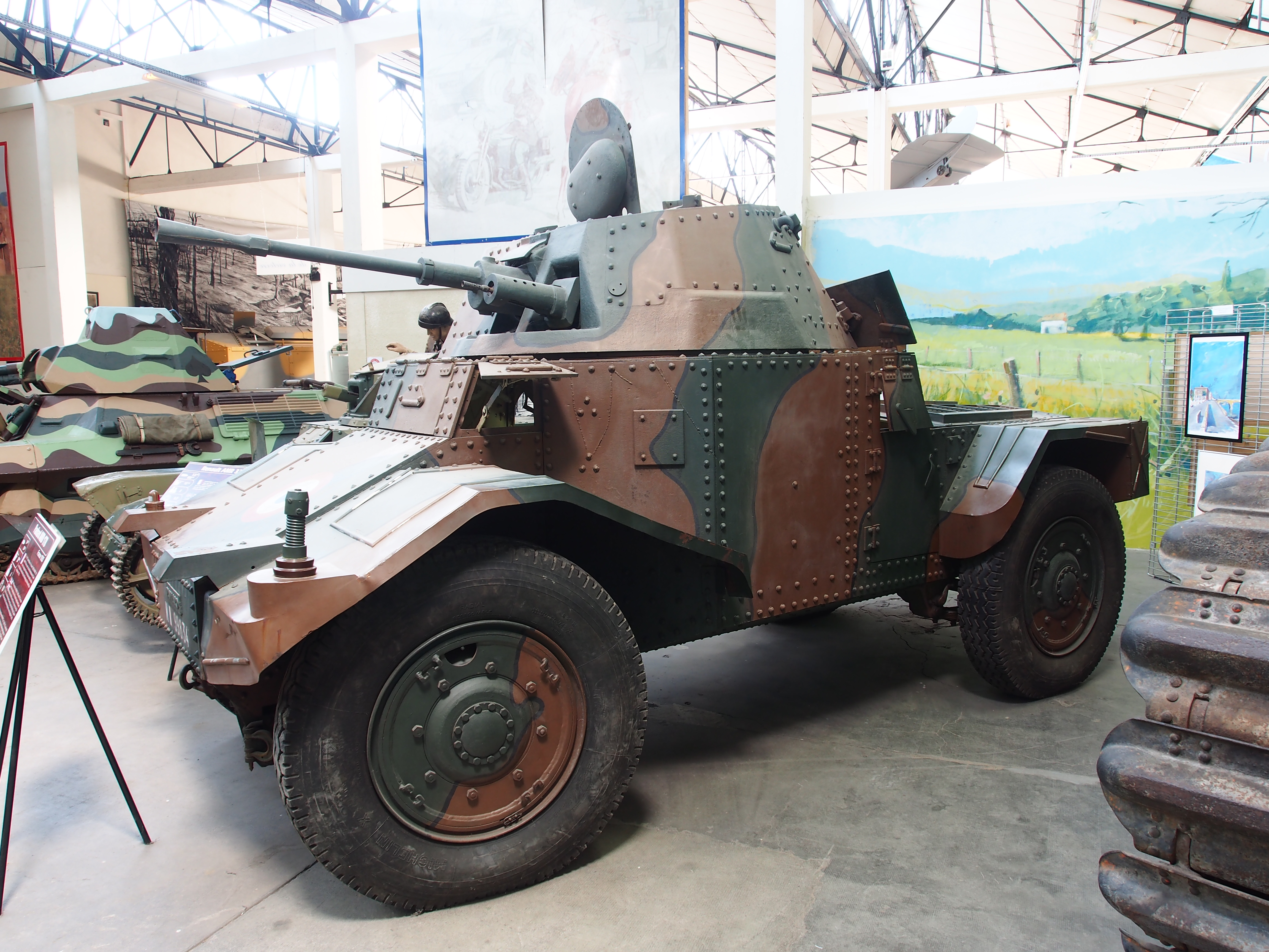 Photographed in the Musée des Blindés, France.